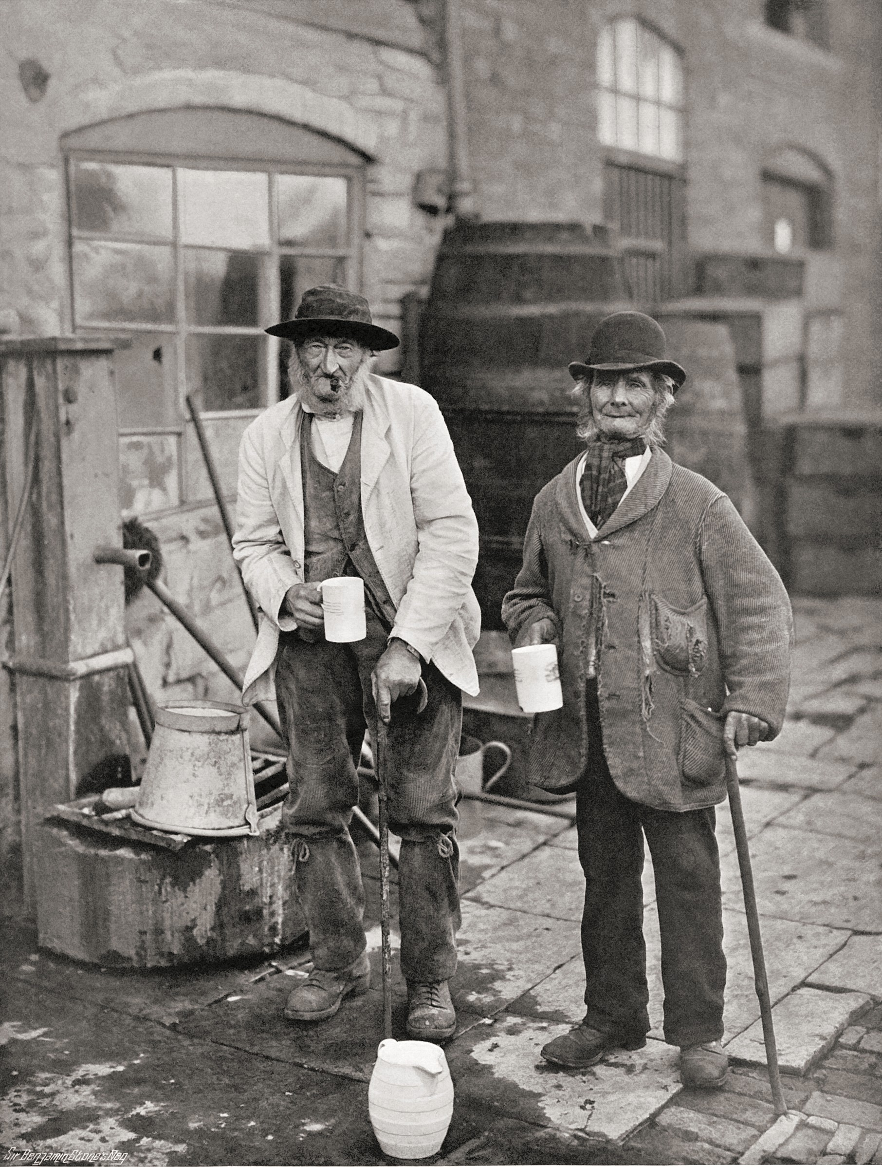 "Sippers" and "Topers". A photo, taken c. 1900, of two villagers at the Bidford Mop, an annual fair held at Michaelmas in the village of Bidford-on-Avon in the English county of Warwickshire. The village has a centuries-old reputation for heavy drinking.